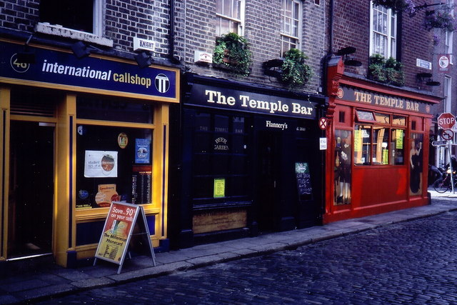 Dublin - Temple Bar Street - Callshop & Temple Bar